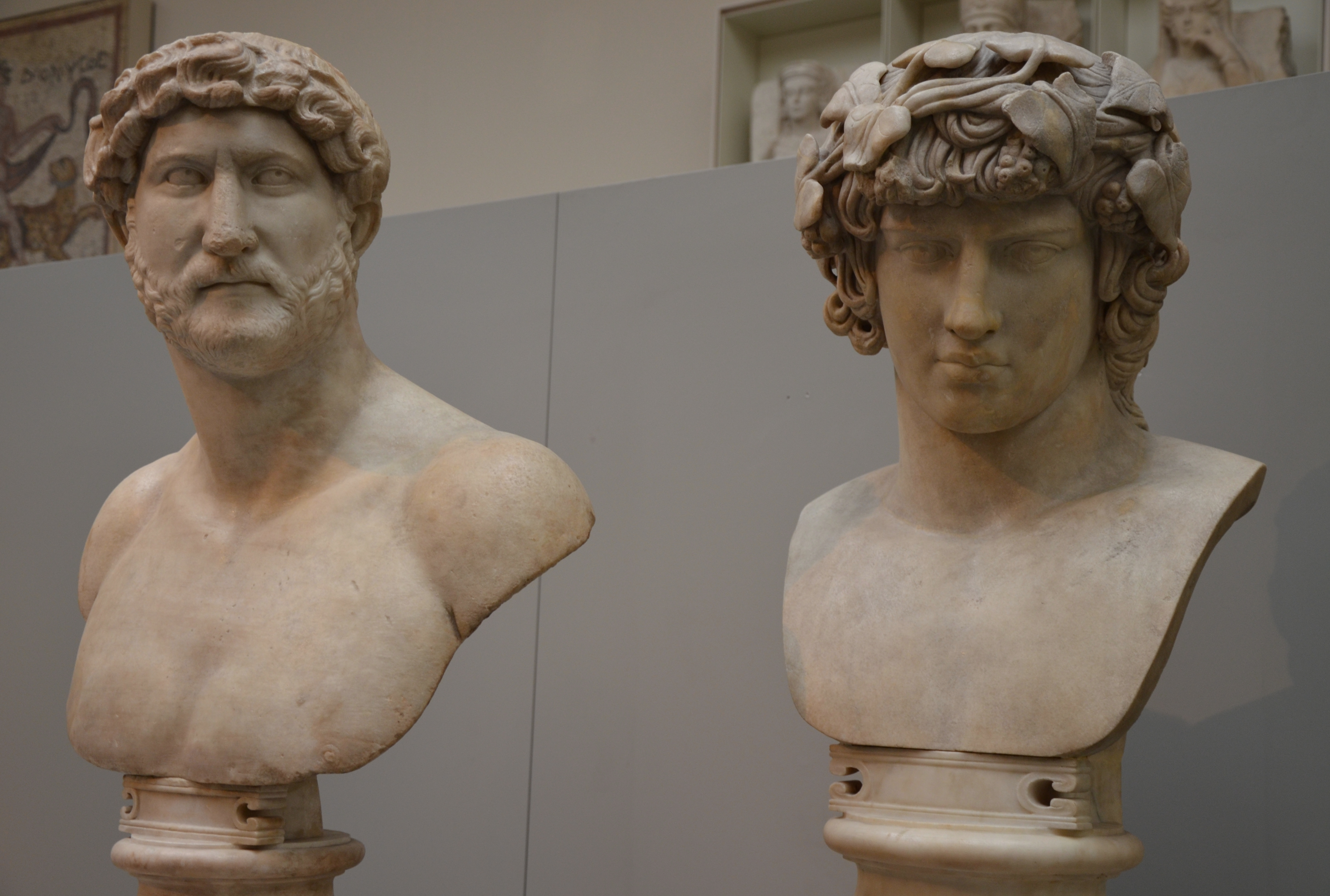 Hadrian & Antinous, British Museum, London